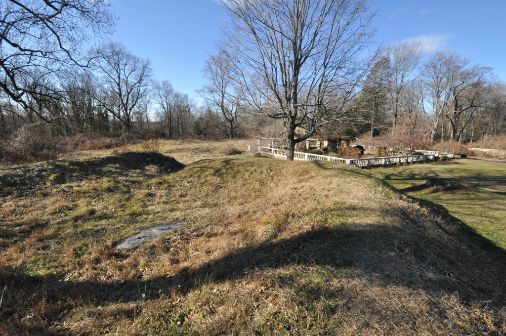 Fort Stamford Site, Stamford, Connecticut. View from atop the earthworks toward the garden.